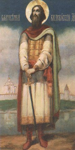 Icon of Daumantas, Duke of Pskov